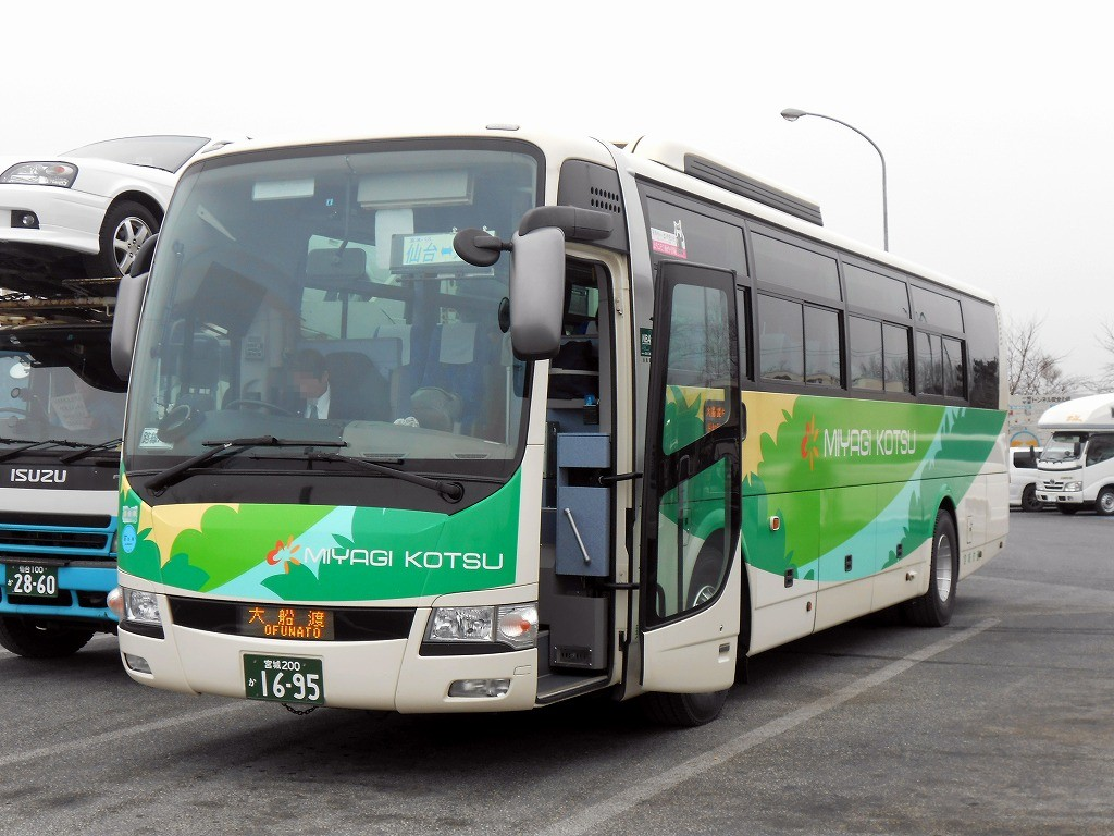 Miyagi Kotsu Highwaybus "Sendai-Ofunato"(Mitsubishi Fuso Aero Ace BKG-MS96JP)